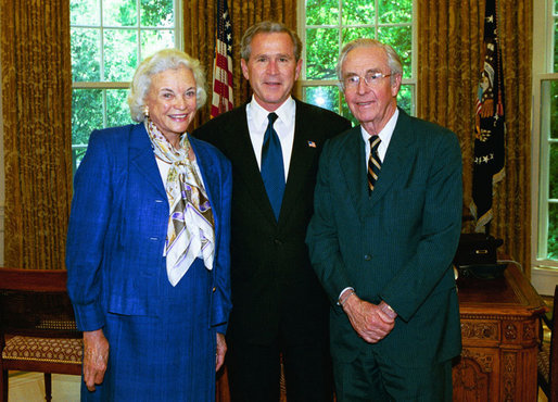 President George W. Bush stands with Supreme Court Justice Sandra Day O’Connor and her husband, John O’Connor, May 2004 in the Oval Office. Justice O’Connor submitted her resignation to the President Friday, July 1, 2005, after 24 years on the High Court to spend more time with her husband.